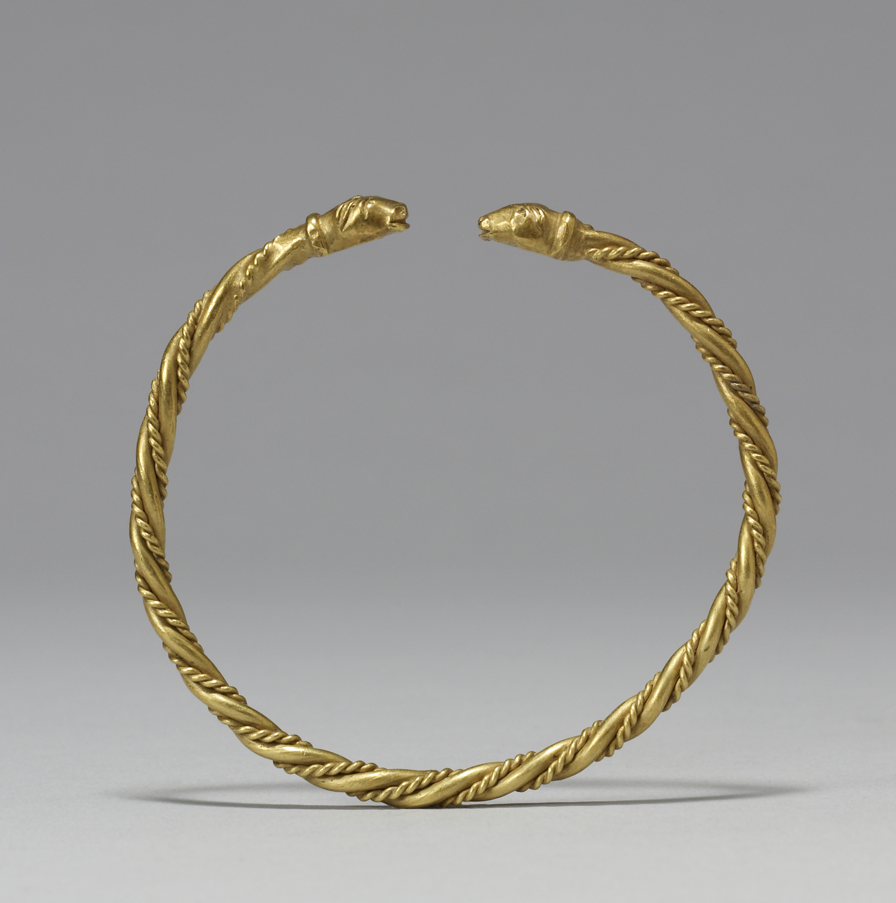 Together with its mate, Walters 57.467, this bracelet has stylized animal-head terminals, much like those found on jewelry made by Germanic peoples to the south. Arm rings or armlets made by twisting thick and thin rods of gold or silver were common during the Viking period, when wealth was literally worn on one's sleeves. Arm rings, the portable savings accounts of the Vikings, would be collected, exchanged, or hacked up to provide weighed amounts of gold to purchase goods.